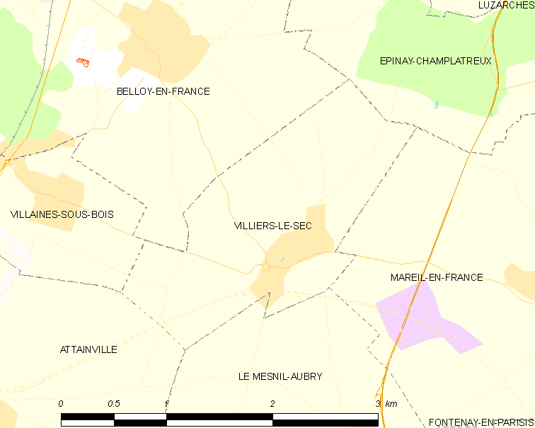 Map of French municipality Villiers-le-Sec